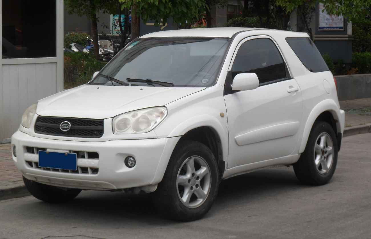 Jonway UFO photographed in Shanghai, China.